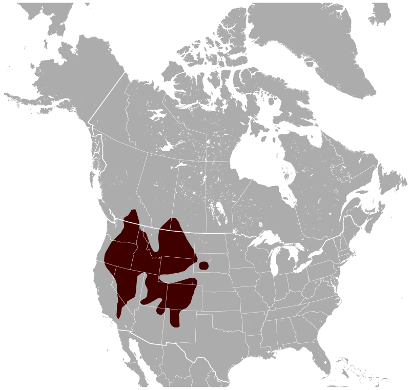 Geographical distribution of the Yellow-bellied Marmot Marmota flaviventris. The map was created using the Generic Mapping Tools, GMT, version 5.1.1.